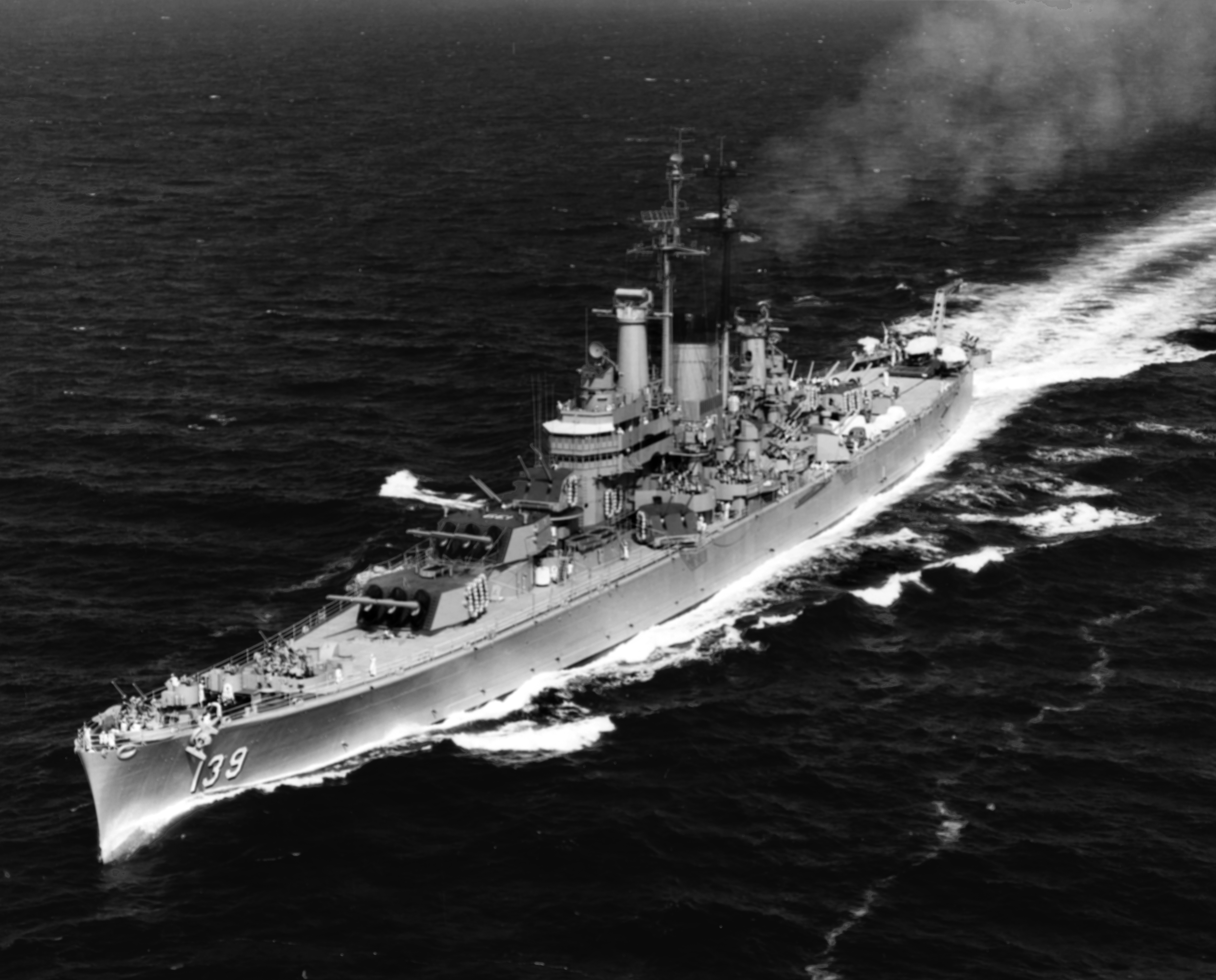 The U.S. Navy heavy cruiser USS Salem (CA-139) underway in the Mediterranean Sea, en route to Trieste (Italy), on 16 June 1952.